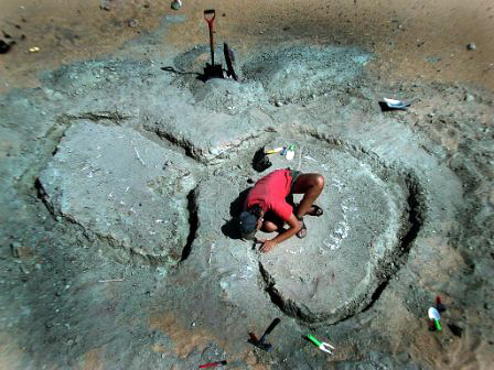 Partial skeleton of Nigersaurus taqueti (MNN GAD517) discovered during the 2000 Expedition to Niger. Expedition member G. Lyon is seated inside the curve of the proximal caudal vertebrae of a skeleton planed flat by wind-blown sand at a site in Gadoufaoua, Ténéré Desert, Niger.